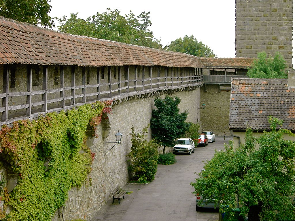 Townwall in Rothenburg ob der Tauber, Germany